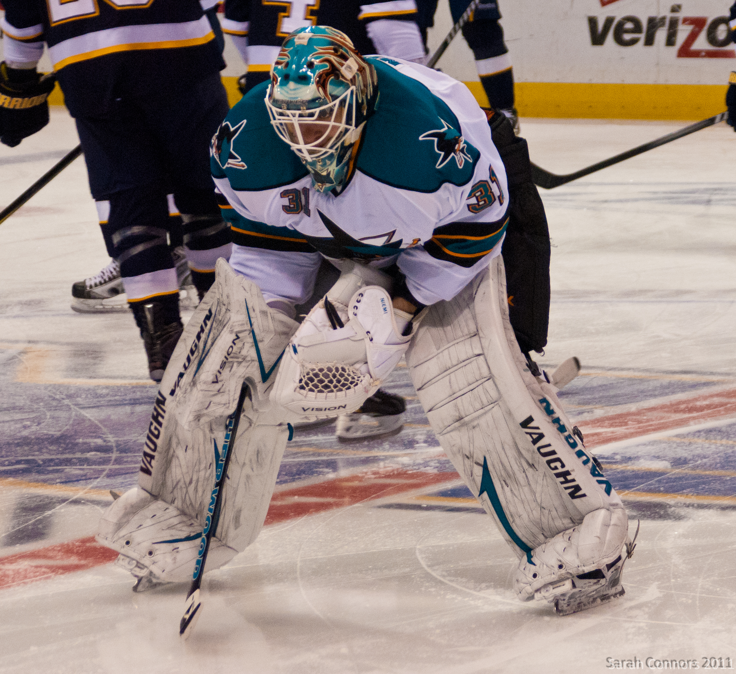 Antti Niemi warms up before a game against the San Jose Sharks and St. Louis Blues on December 10, 2011. Photo taken by Sarah Connors and hosted on Flickr